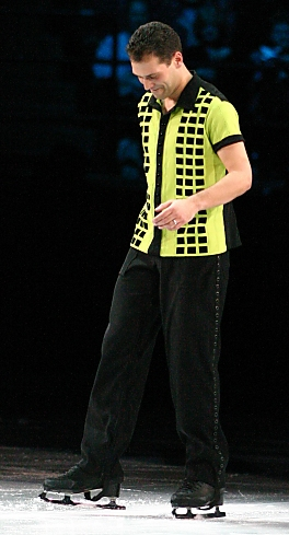 Steven Cousins performs at the 2004 Canadian Stars on Ice show in Hamilton, Ontario.